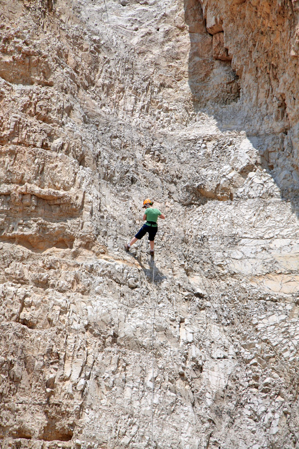 Rappelling in Qumeran, Israel